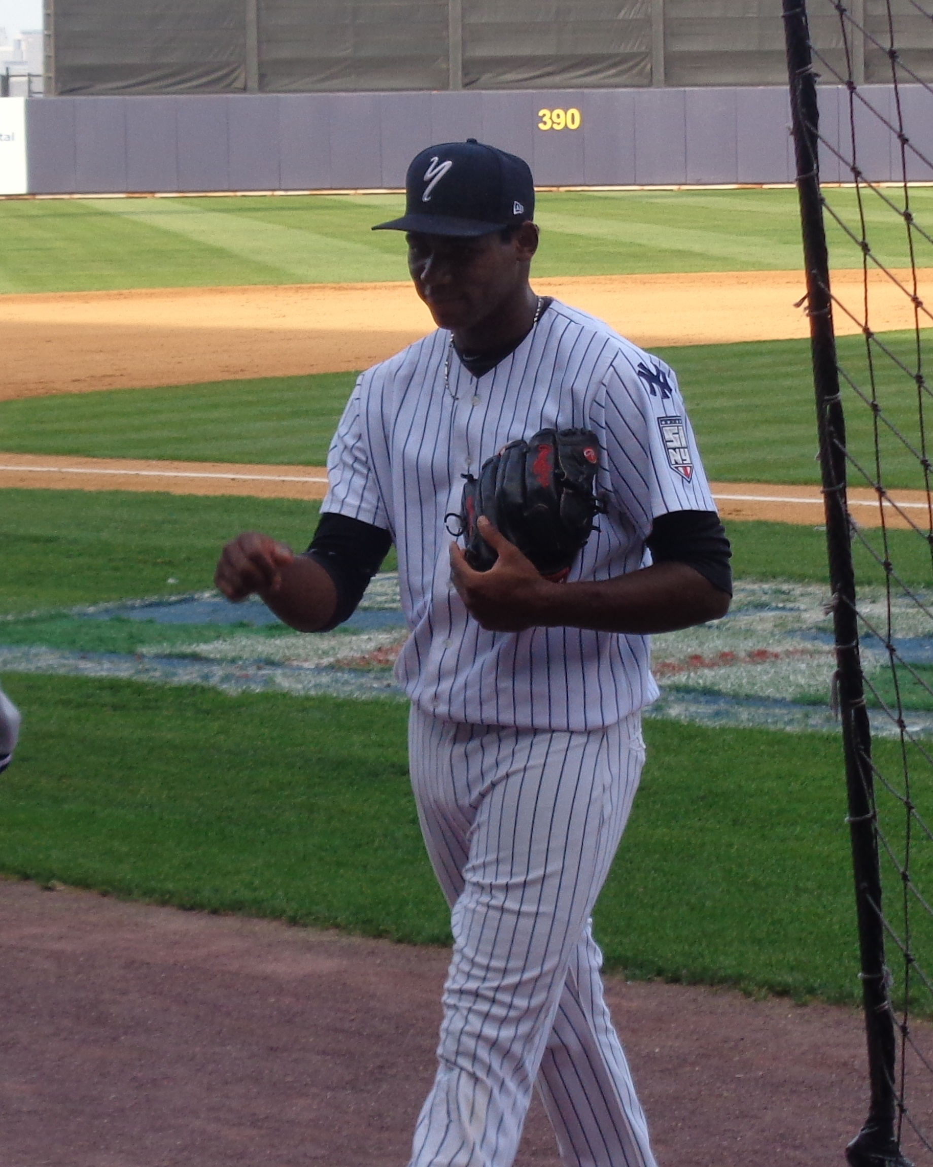 Staten Island Yankees pitcher Jorge Guzmán walks off the field during the middle of the fourth third inning of the SI Yankees vs Brooklyn Cyclones game on August 27, 2017.